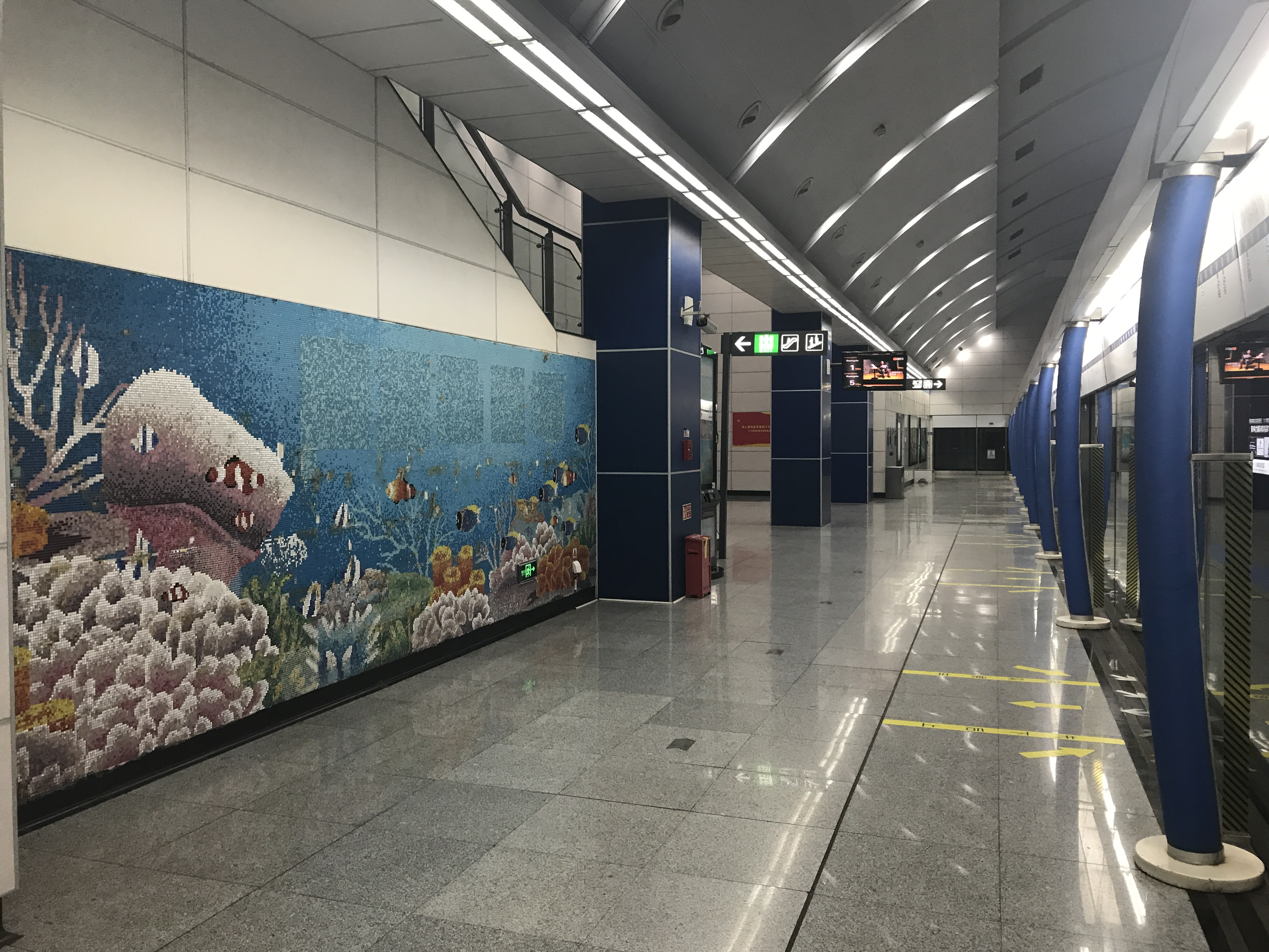 Artwall in the Platform of Line 1, Jincheng Plaza Station, Chengdu Metro